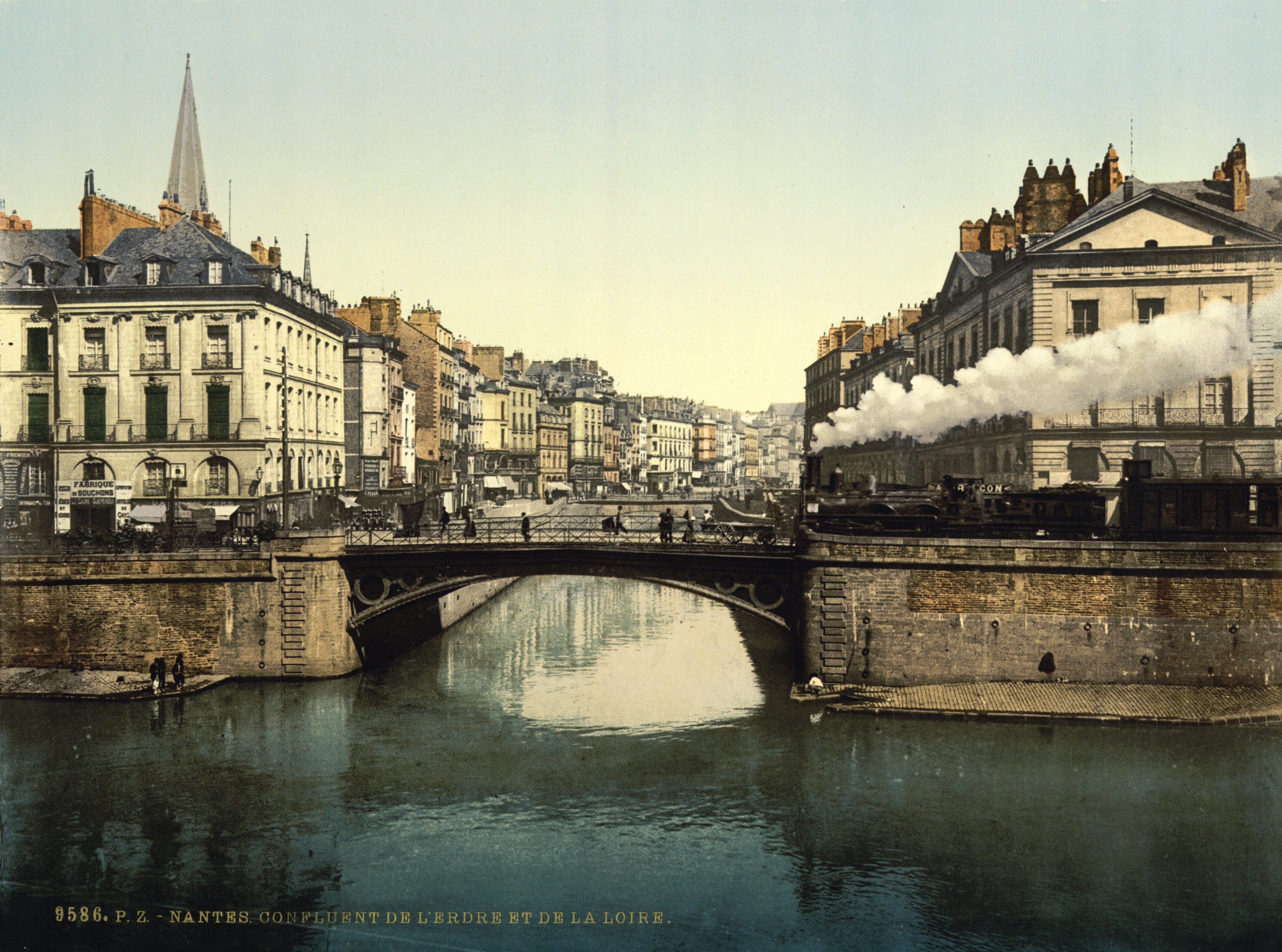 Confluence of Erdre and Loire rivers in Nantes, France